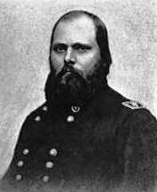 George L. Hartsuff Commanded the Twenty-third Corps in 1863. from The Photographic History of the Civil War, Volume Ten: Armies and Leaders by Robert S. Lanier, ed. Published 1911 in New York by The Review of Reviews Co. Page 193.